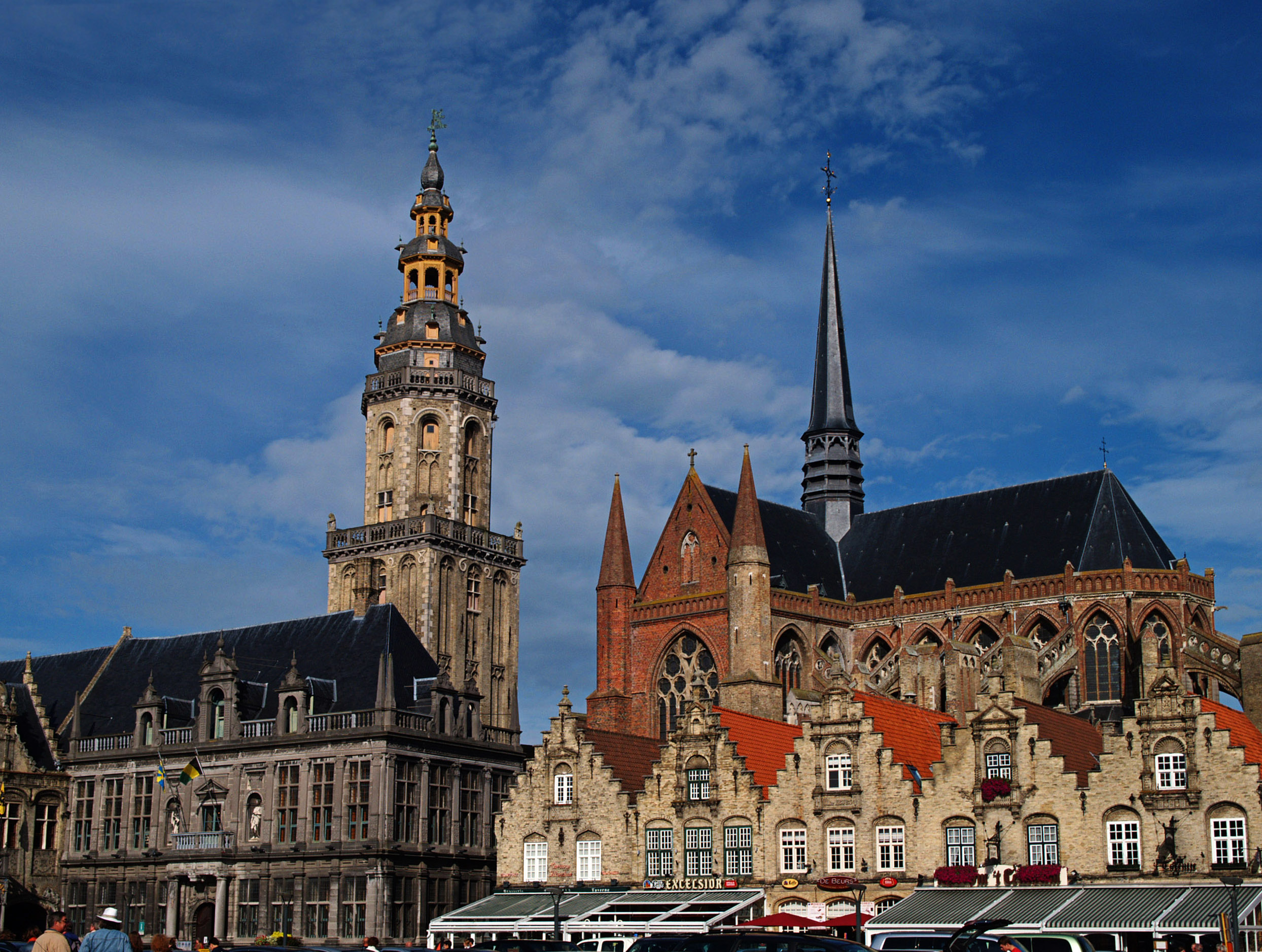 Landhuis (with belfry) and St Walburga Church - Veurne, Belgium